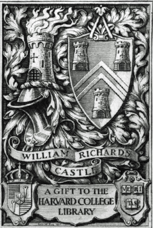 William Richards Castle (1849–1935) donated his collection of books on history of the Pacific (he was born and lived in Hawaii) to Harvard library.